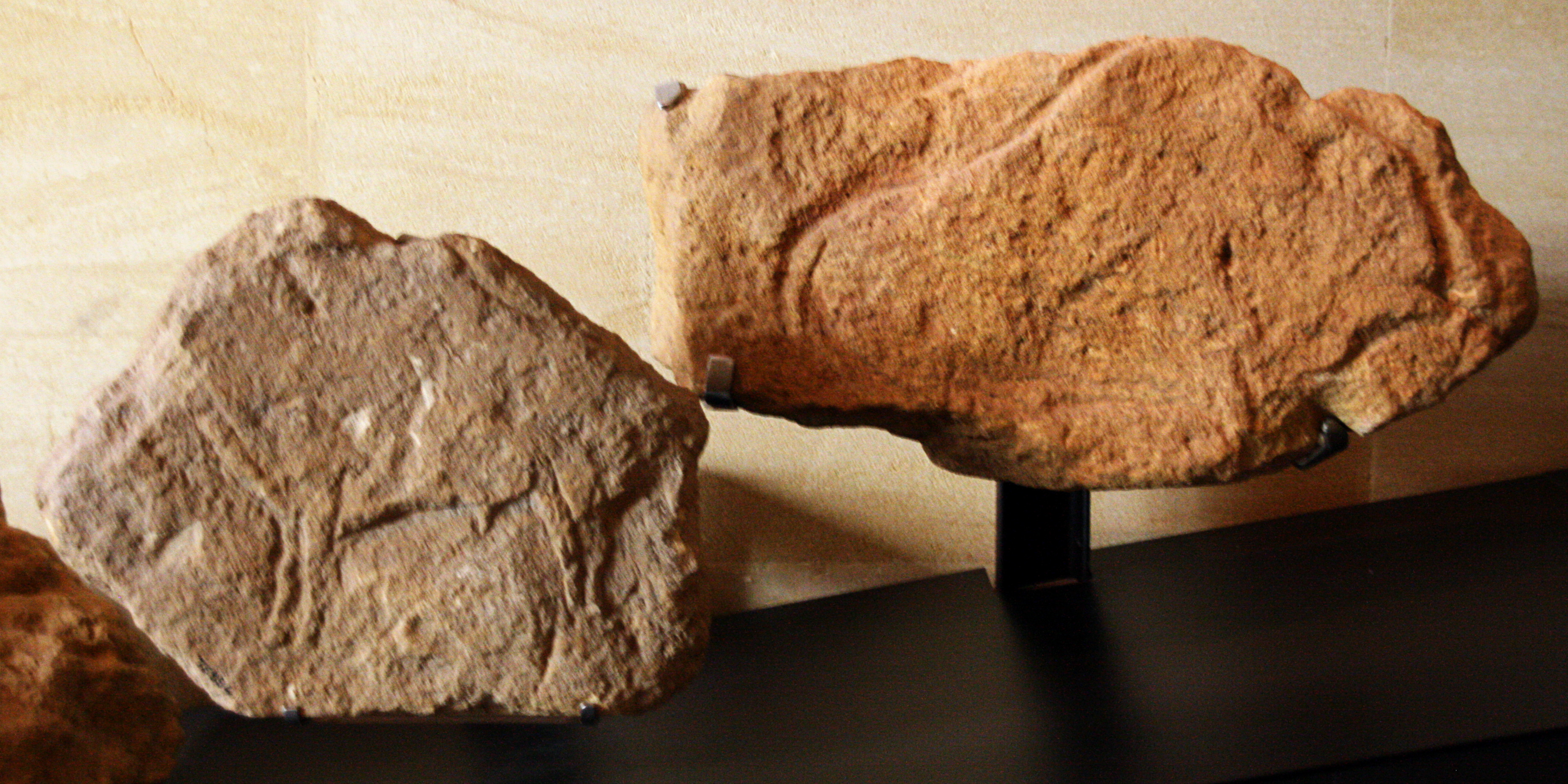 Bisons found under Les Jamblancs rock shelter in Bourniquel, Dordogne, France. Badegoulian culture, 18,000 BP. They can be viewed in the National Prehistory Museum in Les Eyzies-de-Tayac.